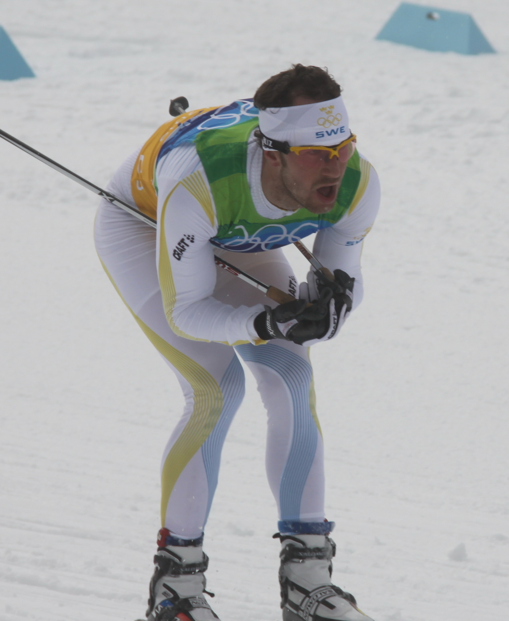 Anders Södergren of Sweden helps bring home the gold in the men's 4x10 KM cross-country skiing relay on February 24th, 2010